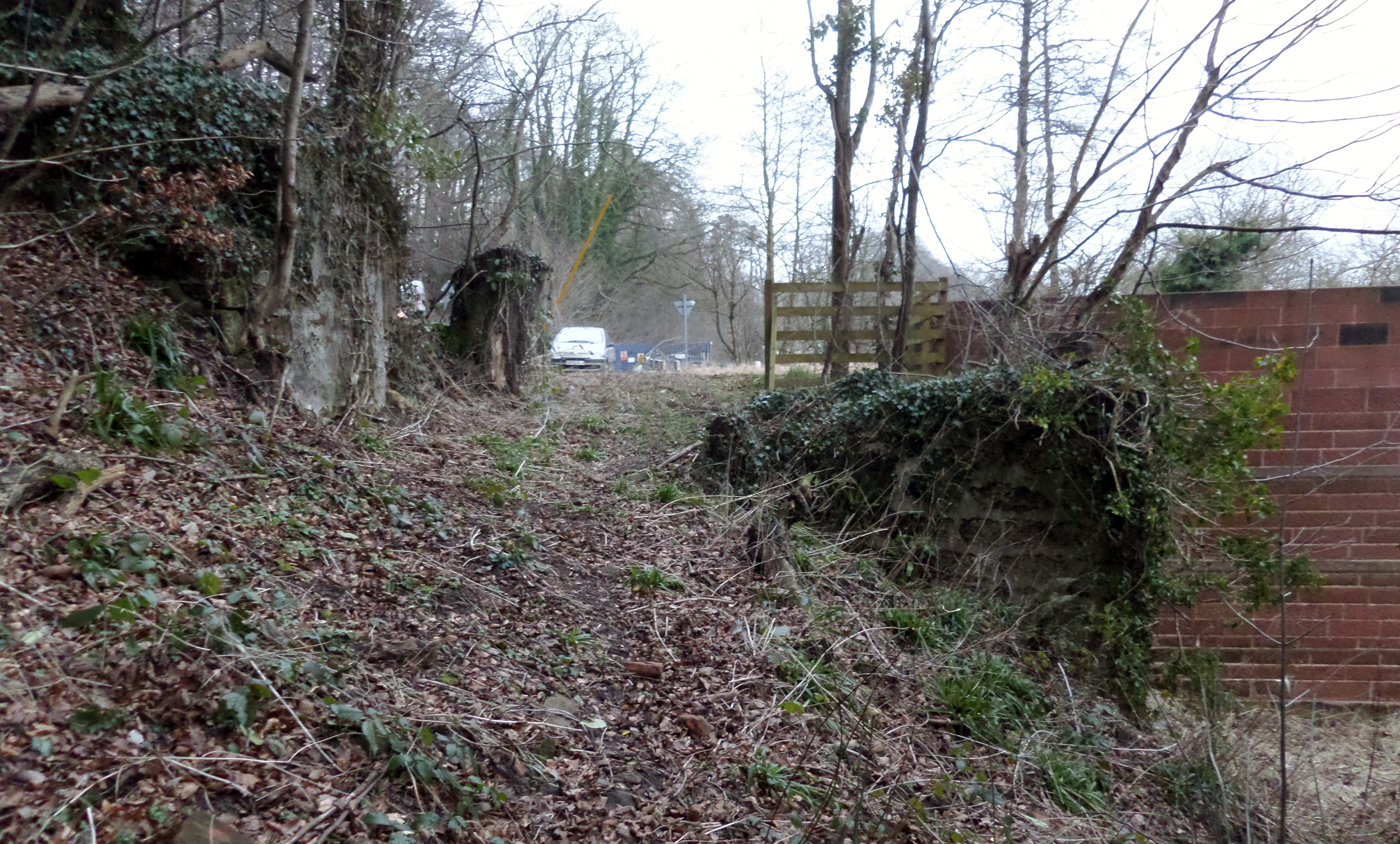 Bridge or Kemp's House remnants, Mauchline, East Ayrshire, Scotland. A view of the raised foundation support.